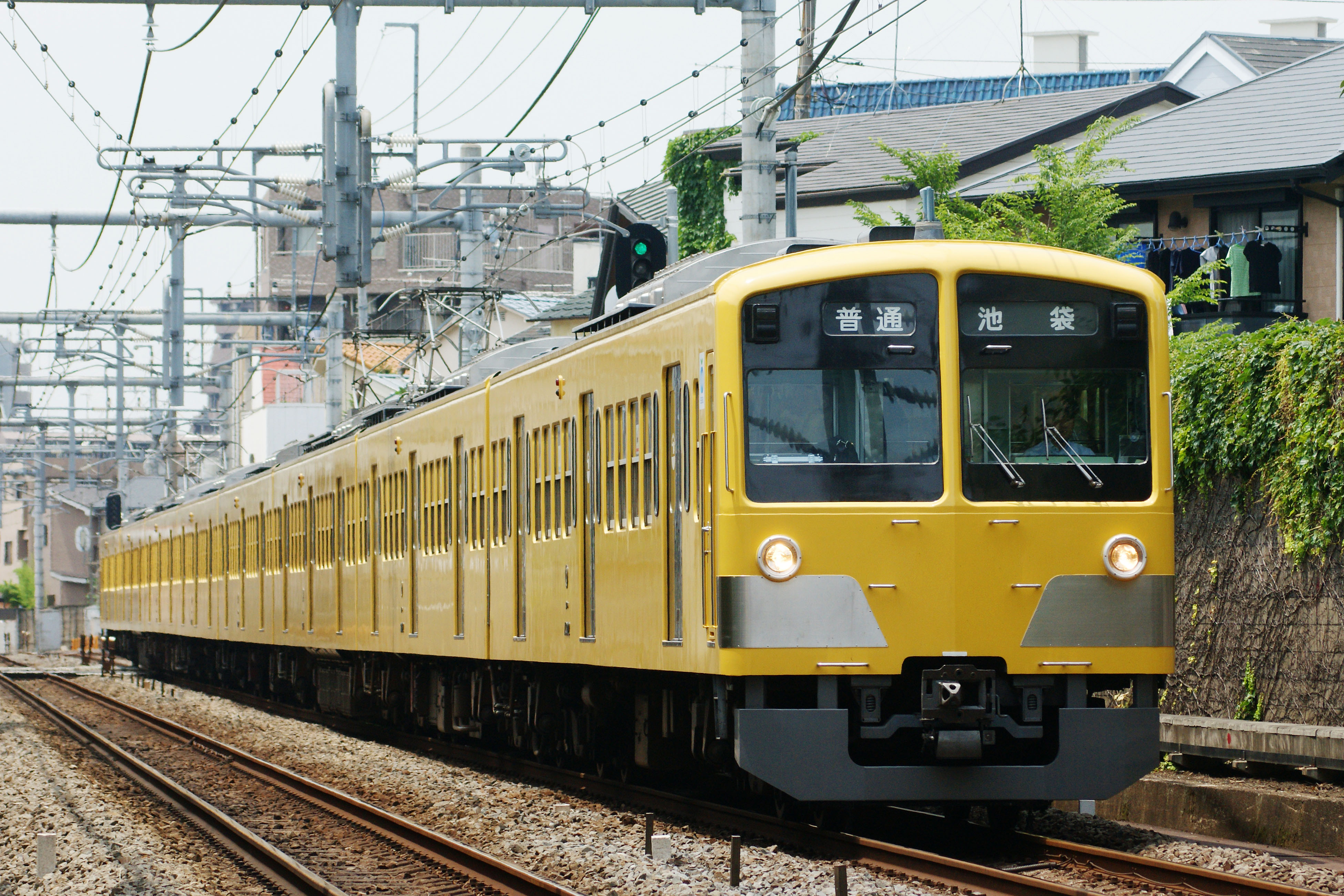 Seibu Railway series new101 EMU.